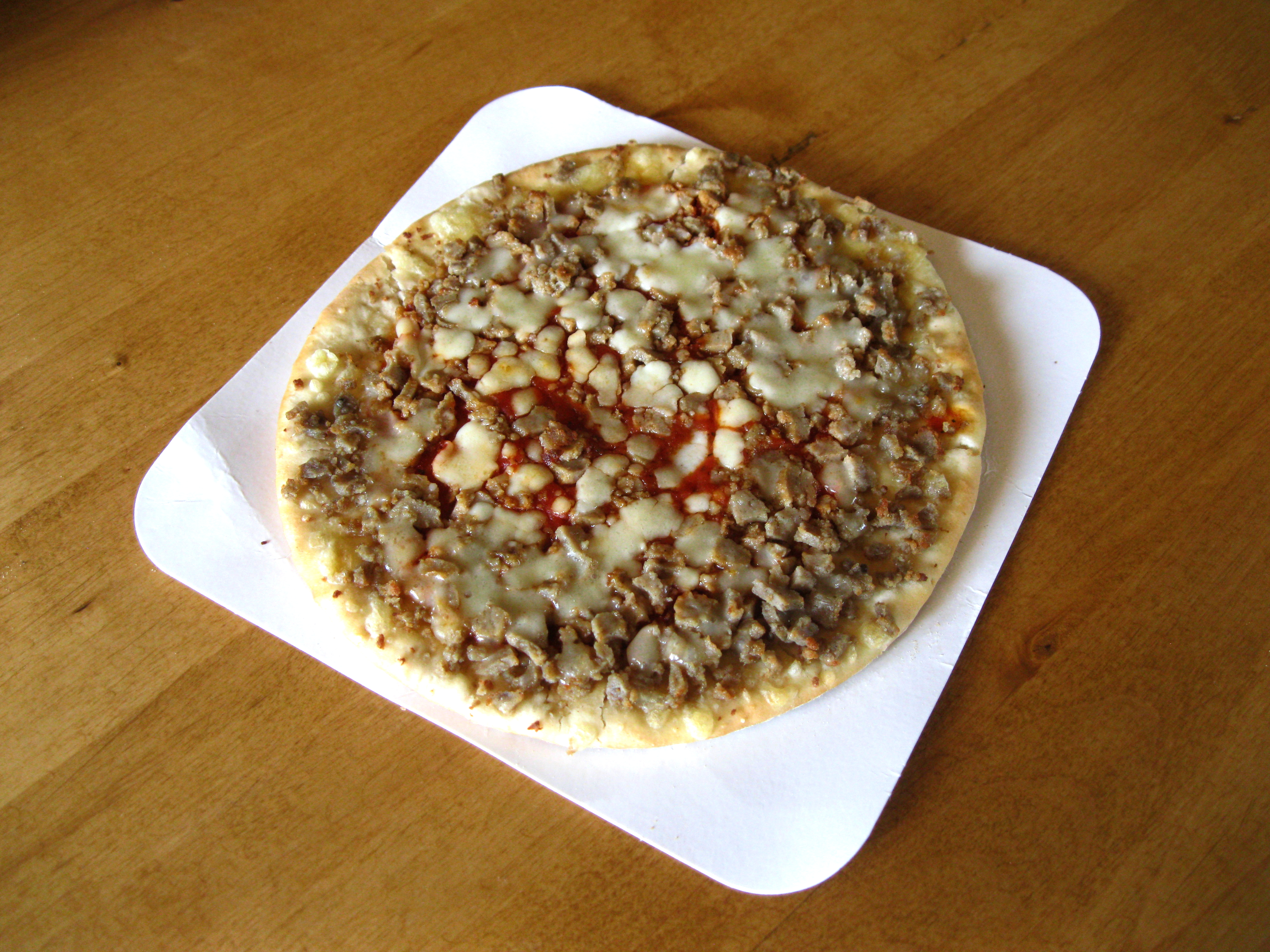 Microwave Pizza.